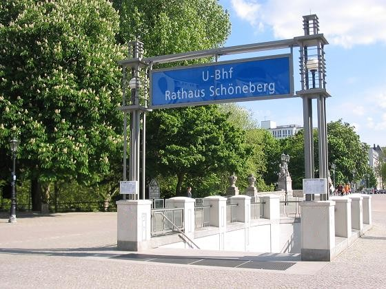 Entrance to the U-Bahn-station "Rathaus Schöneberg" (Line U4) at the Carl-Zuckmayer-Bridge, Berlin, Germany